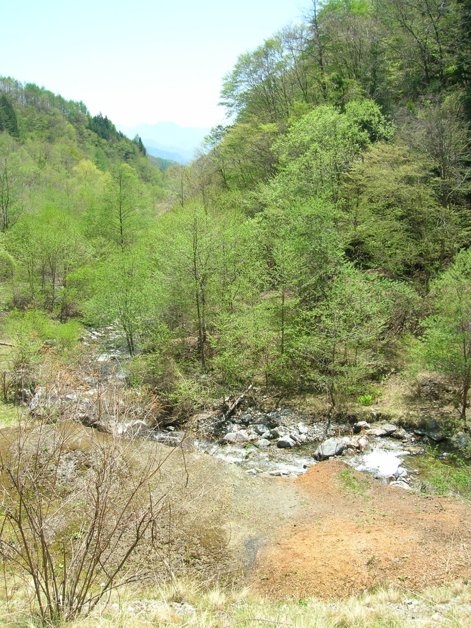 Chuou Kouzousen, Kitagawa Rotou. (Median Tectonic Line, Kitagawa outcrop.) Loc: Ōshika, Nagano Prefecture, Japan 中央構造線・北川露頭。露頭上から南方を見る。鹿塩川の右岸に構造線が走る。 撮影場所 長野県下伊那郡大鹿村